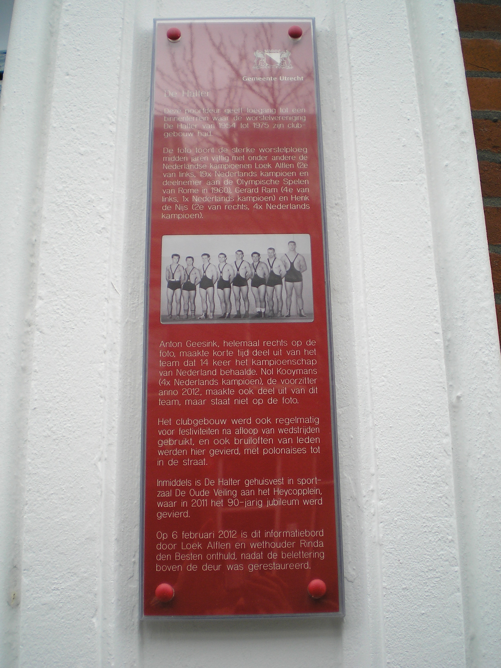 Remembering wrestling club De Halter revealed at 06/02/2012 to the Bollenhofsestraat 102 in Utrecht in the Netherlands